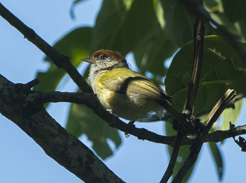 Grey-eyed Greenlet - Rio de Janeiro - Brazil_S4E1215